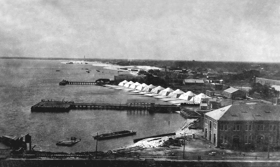 View of a row of tent hangars lining the shore along the waterfront at the U.S. Naval Aeronautic Station Pensacola, Florida (USA), circa 1914-1916.